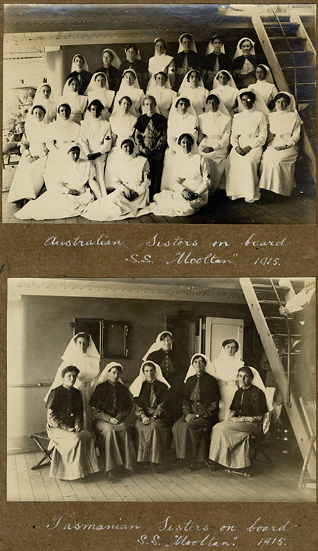 Australian Sisters on board Mooltan - Tasmanian Sisters on board, 1915 / A.W. Savage Note: Army sisters en route to the Third Australian General Hospital at Lemnos Format: Silver gelatin photographs From the collections of the Mitchell Library, State Library of New South Wales Information about photographic collections of the State Library of New South Wales: .au/search/SimpleSearch.aspx Persistent url: .au/item/itemDetailPaged.aspx?itemID=69841